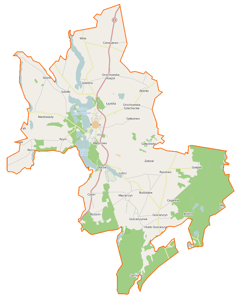 Map of Gmina Rogowo, Poland This map of Rogowo (gmina w powiecie żnińskim) was created from OpenStreetMap project data, collected by the community. This map may be incomplete, and may contain errors. Don't rely solely on it for navigation. Border coordinates52.812517.5380←↕→17.824352.5995